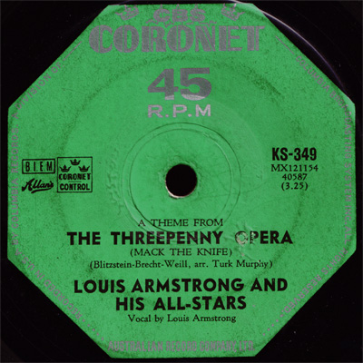 This is the record label for the 7" Single A Theme From The Threepenny Opera by the artist Louis Armstrong and his All-Stars. Record in Museumofinanitys collection